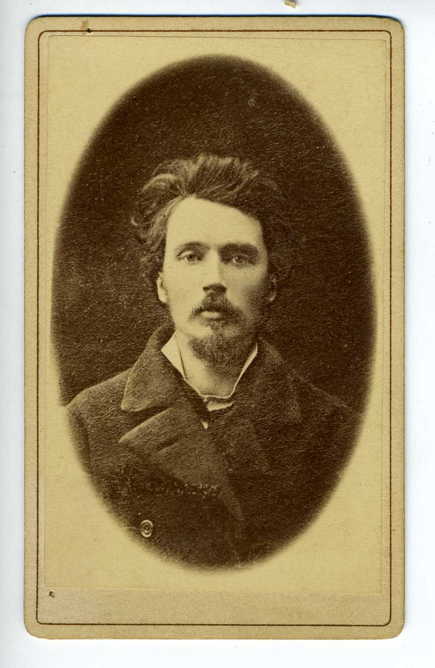 Aleksander Mikhaylovich Bogomolets (1850-1953) in exile. 1880s